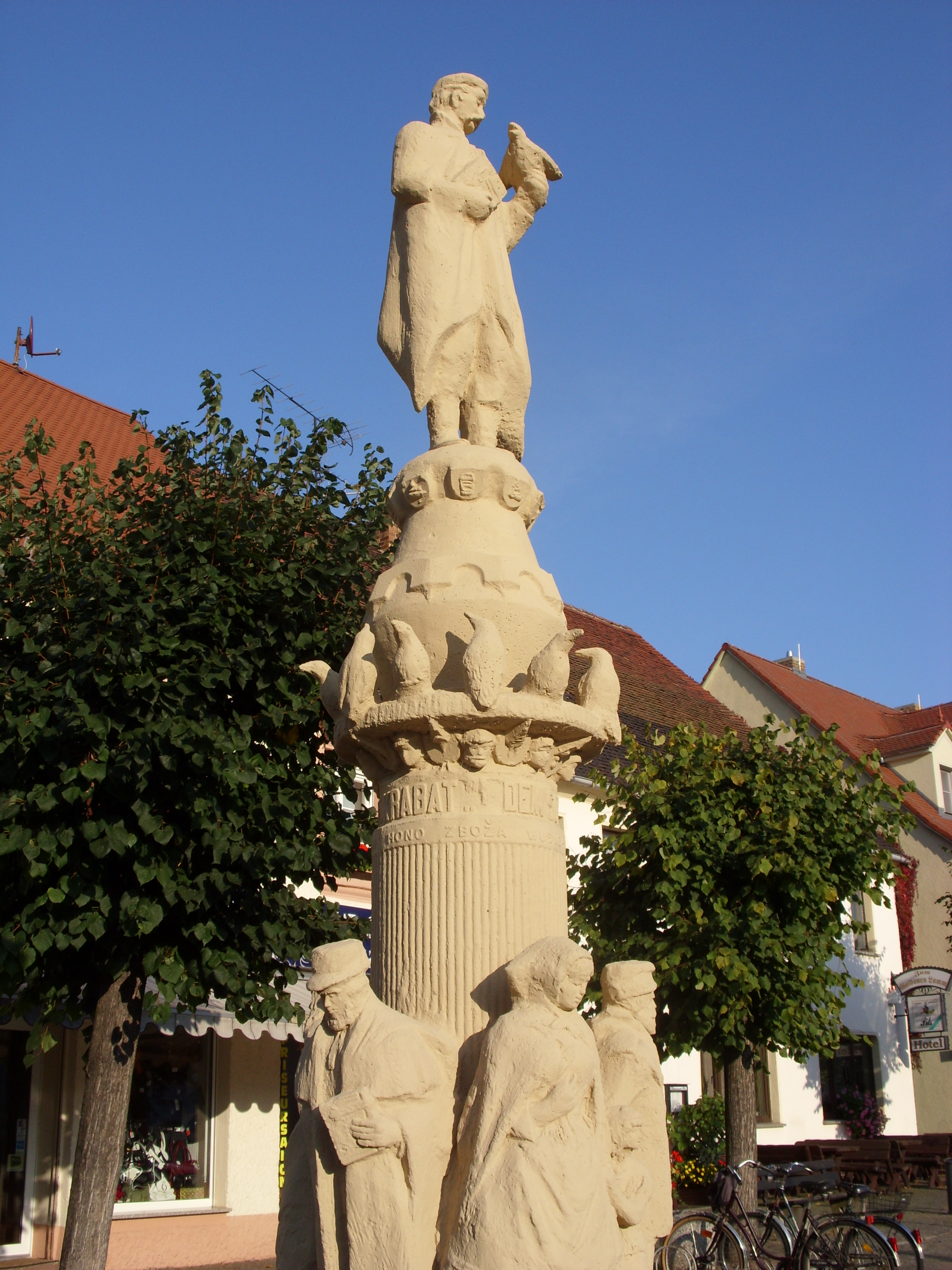 Column for the legendary wizard and Sorbian folk hero "Krabat" in Wittichenau. Hornjoserbsce: Krabatowy stołp w Kulowje.